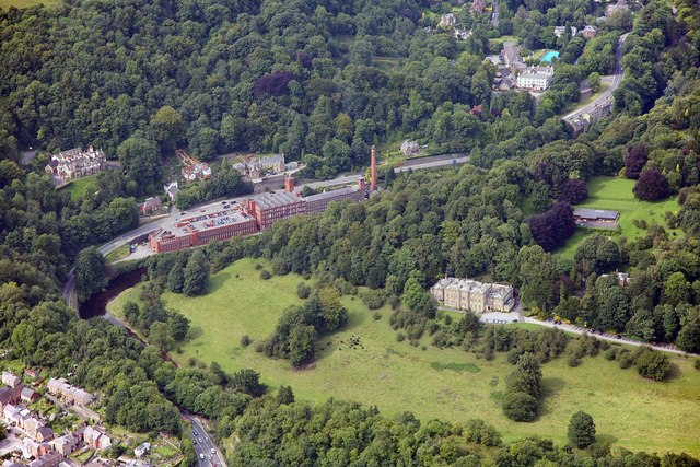 Masson Mills and Willersley Castle, Cromford Air view of Masson Mills and Willersley Castle